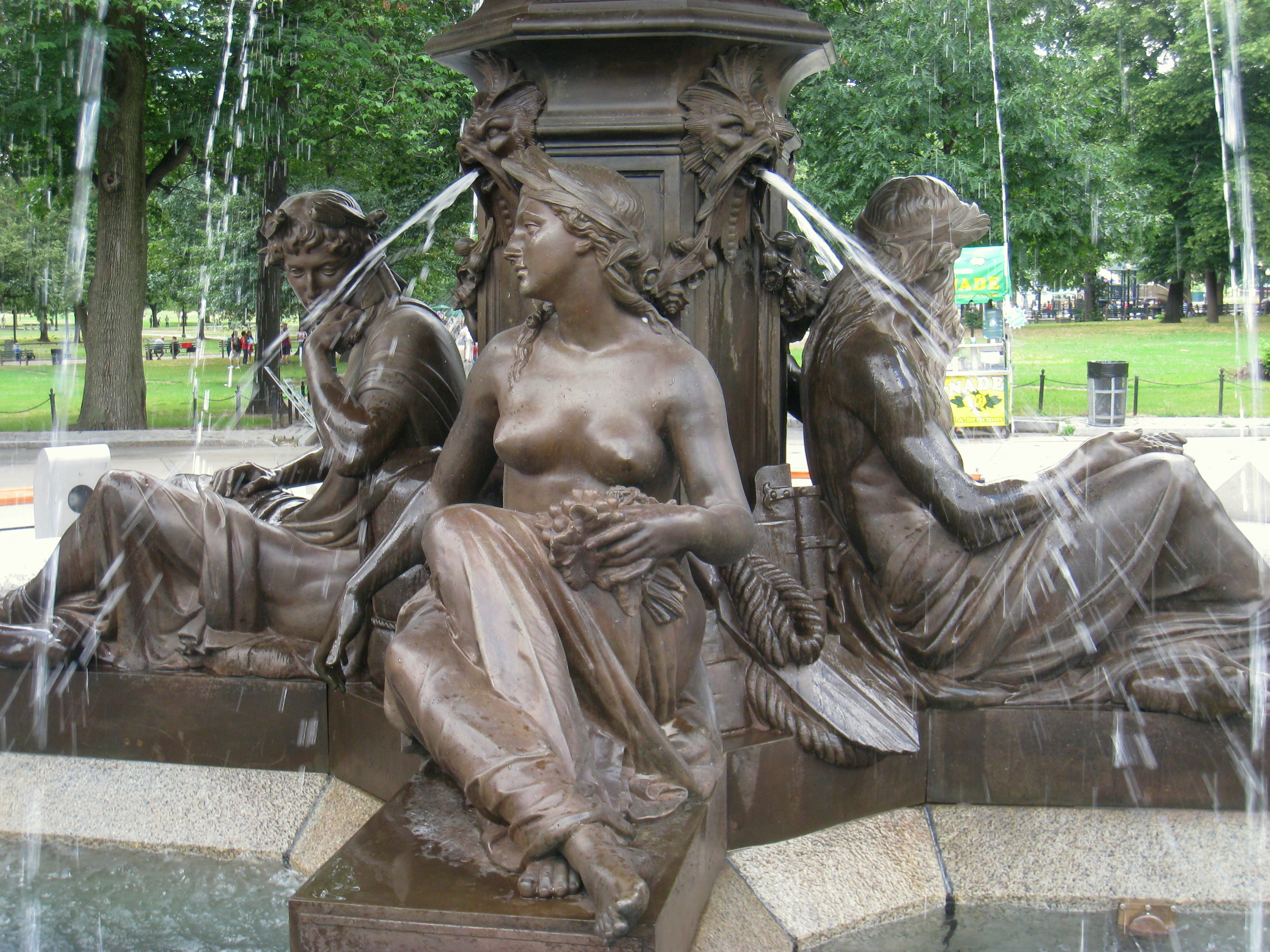 Detail of Brewer Fountain, Boston Common, Boston, Massachusetts, USA.